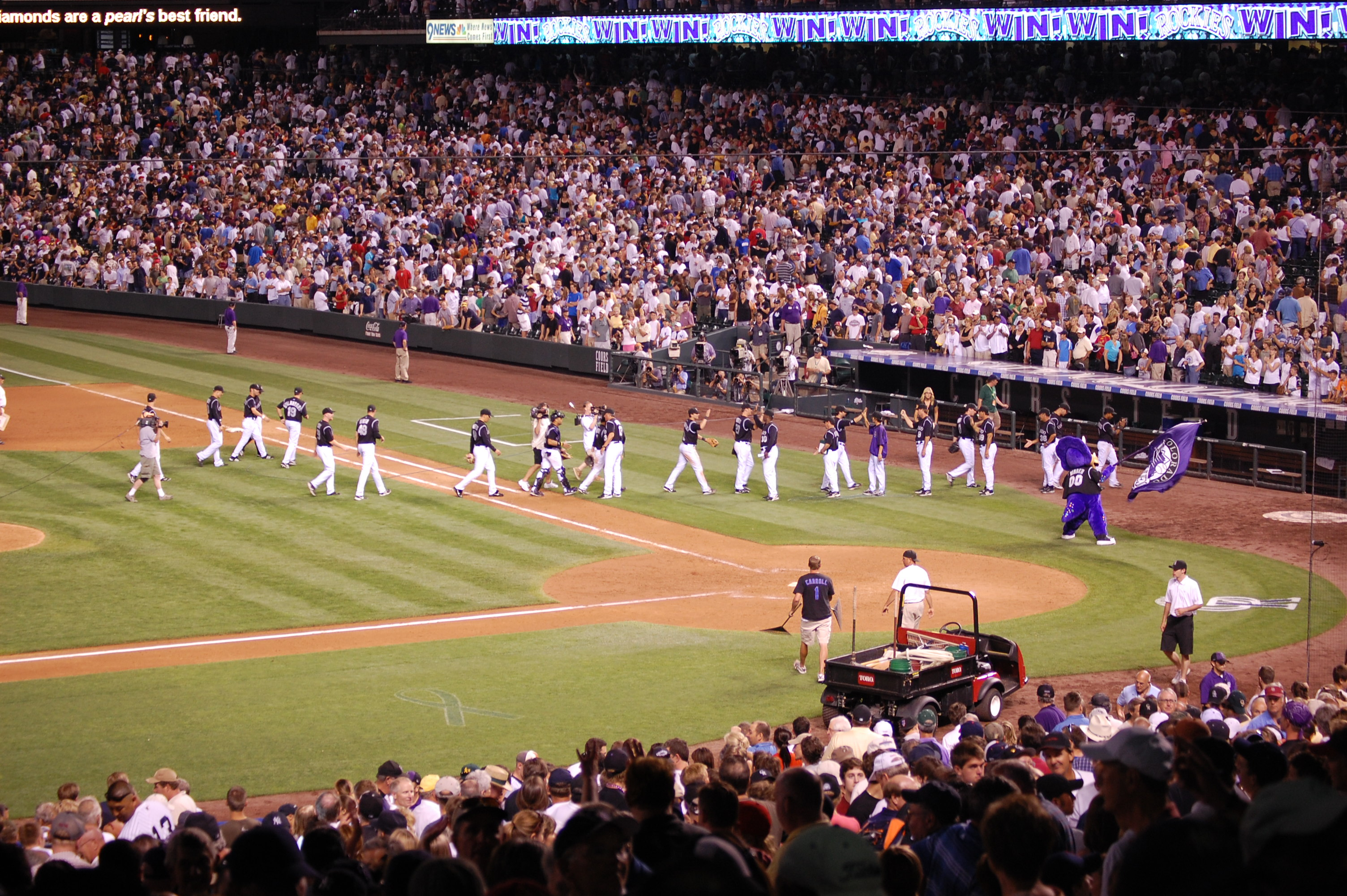 gfdl, own work 14:24, 30 June 2007 . . Onetwo1 . . 3008×2000 (1,561,114 bytes)